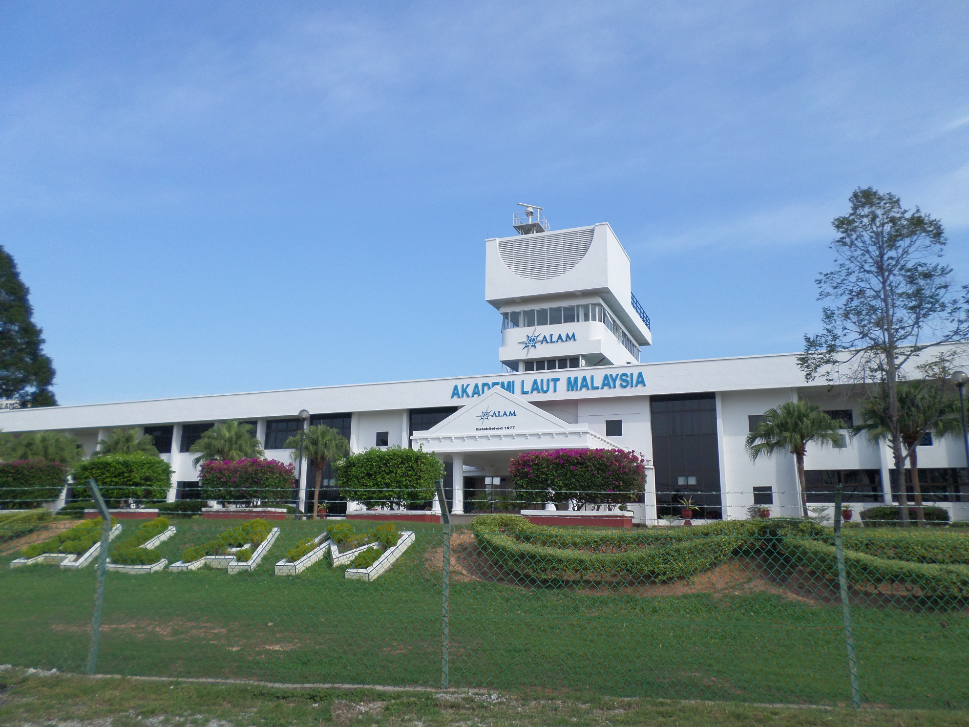 Malaysian Maritime Academy, Kuala Sungai Baru, Alor Gajah, Malacca, MalaysiaBahasa Melayu: Akademi Laut Malaysia, Kuala Sungai Baru, Alor Gajah, Melaka, Malaysia